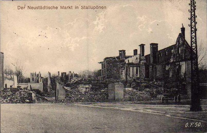 Nesterov (Stallupönen) in 1914Stallupönen